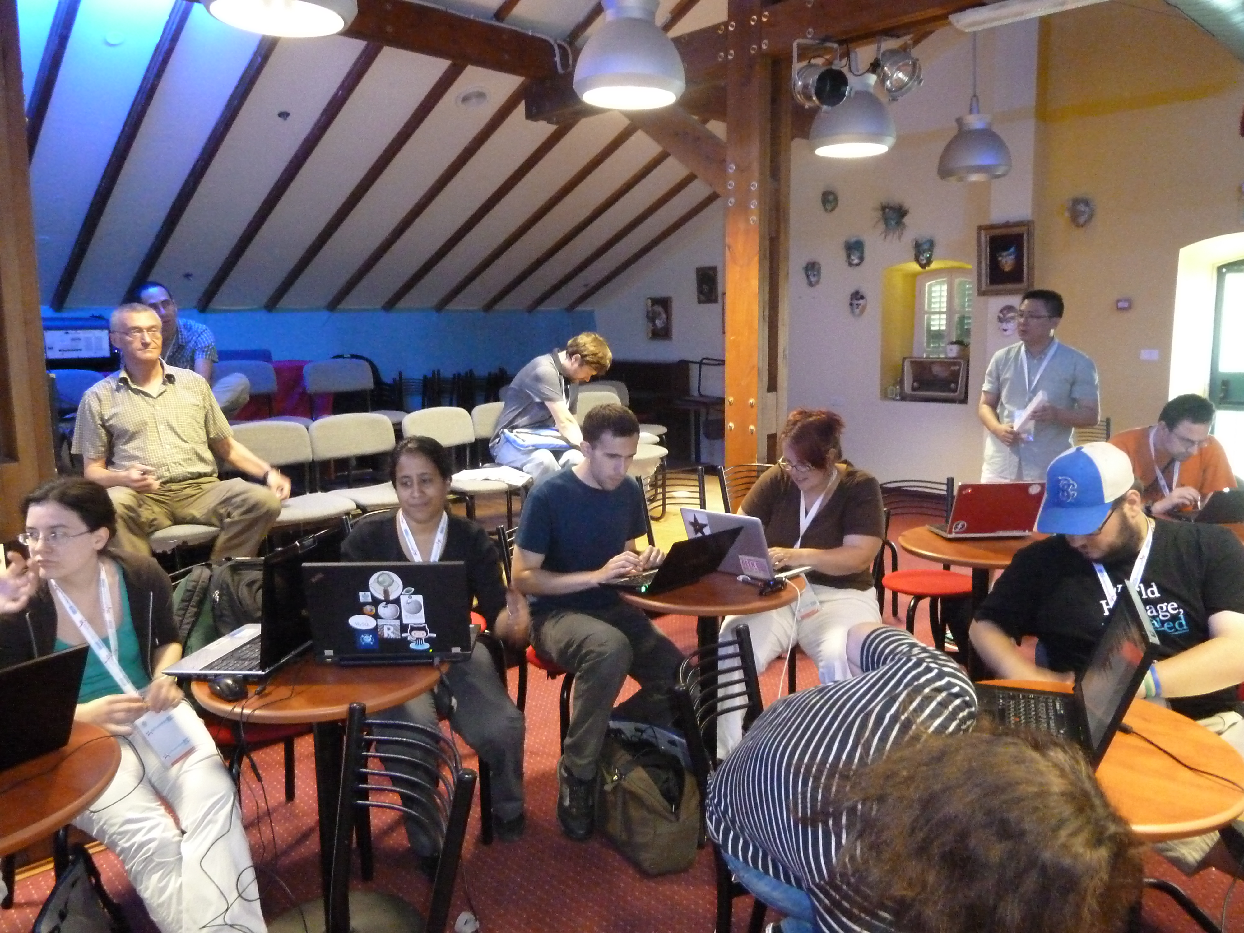 Wikimania 2011 Hackathon